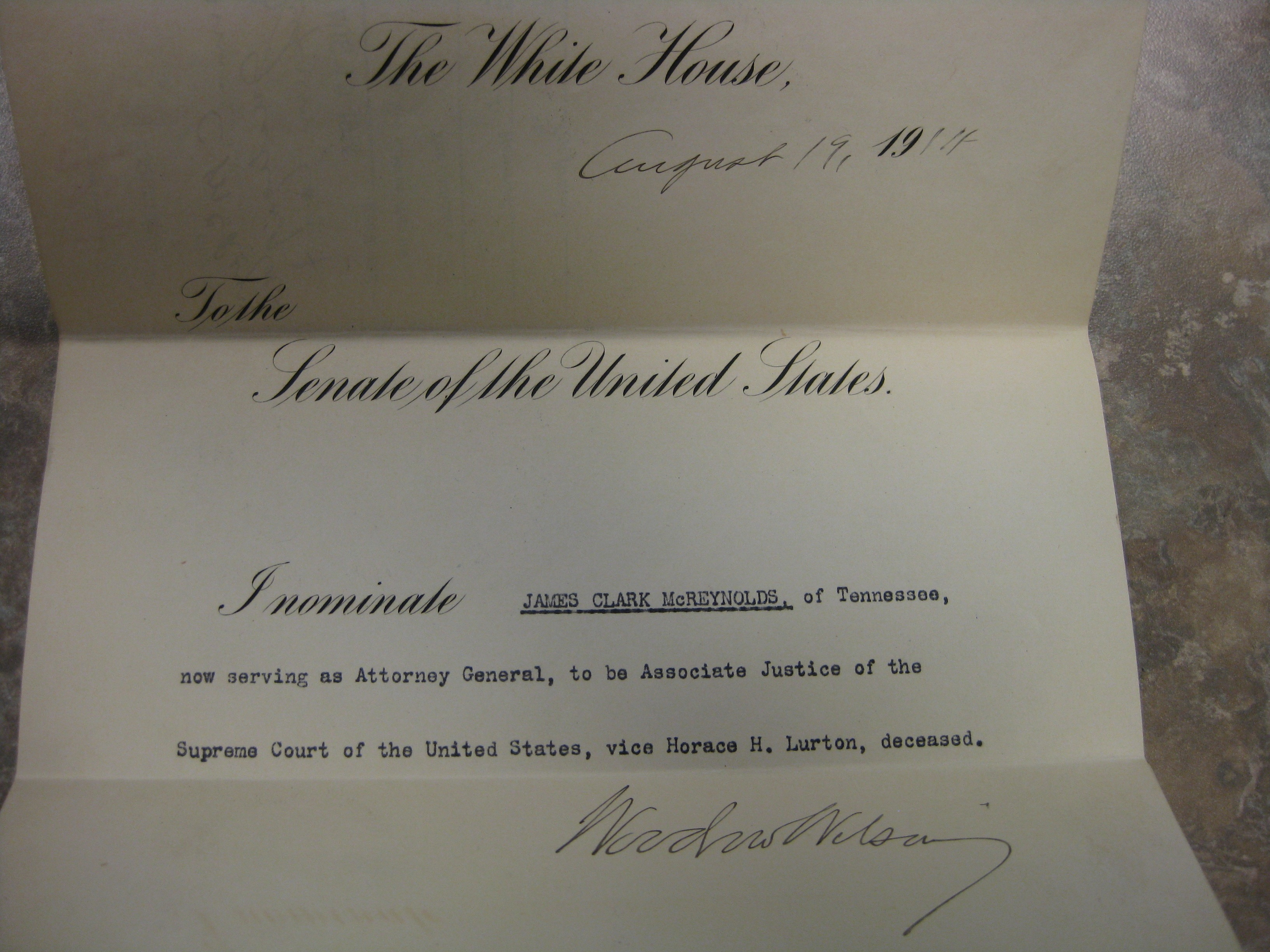 Woodrow Wilson's nomination of James McReynolds to serve on the U.S. Supreme Court. Courtesy of the National Archives and Records Administration.